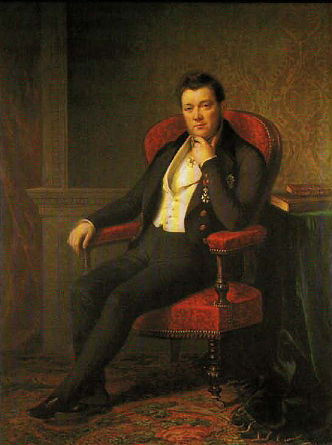 Painting of Jean-Pierre Pescatore (1793 - 1855) by Louis Aimé Grosclaude (1784-1869).